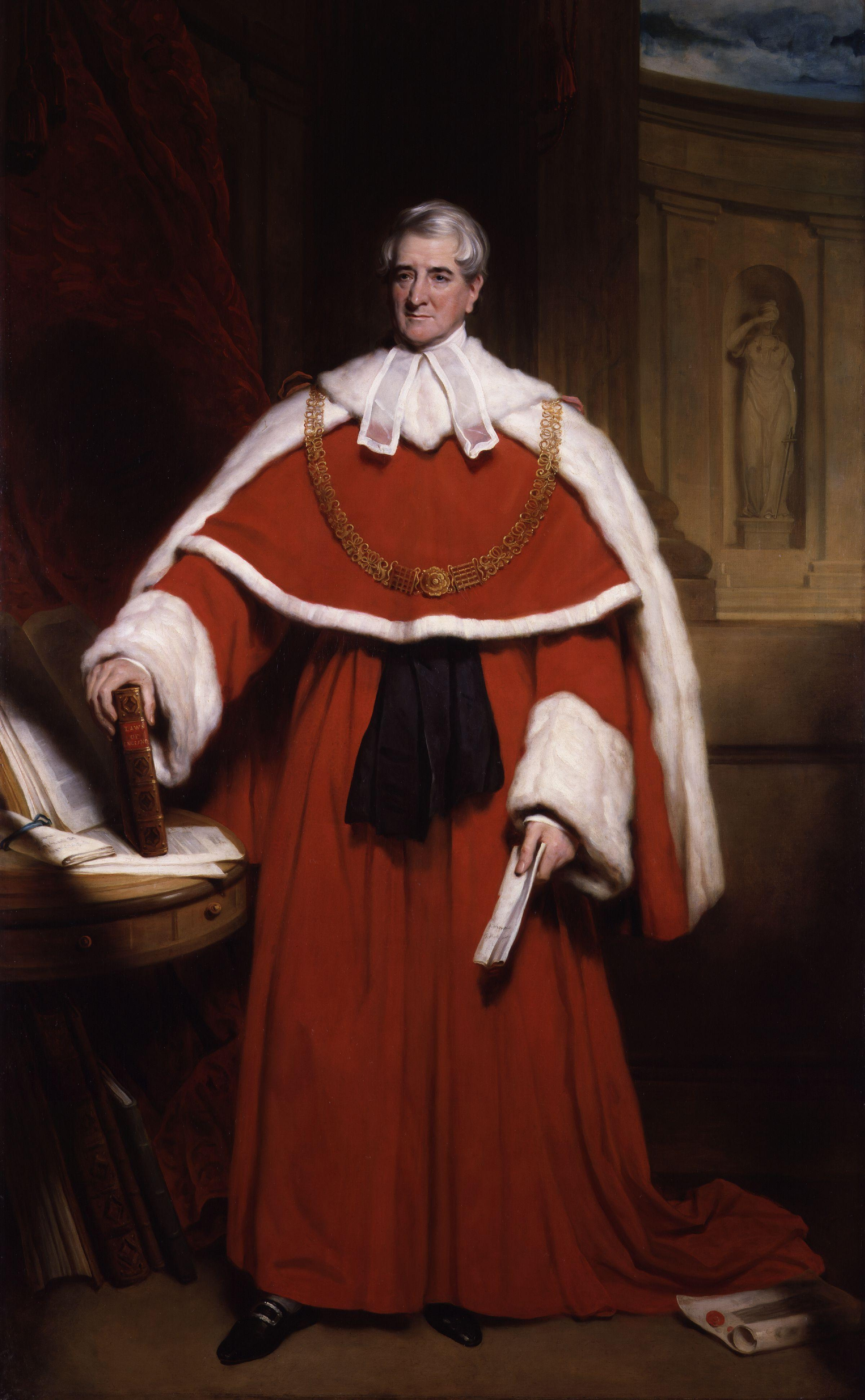 Painting given to the National Portrait Gallery, London in 1877. All images in this batch have been confirmed as author died before 1939 according to the official death date listed by the NPG.